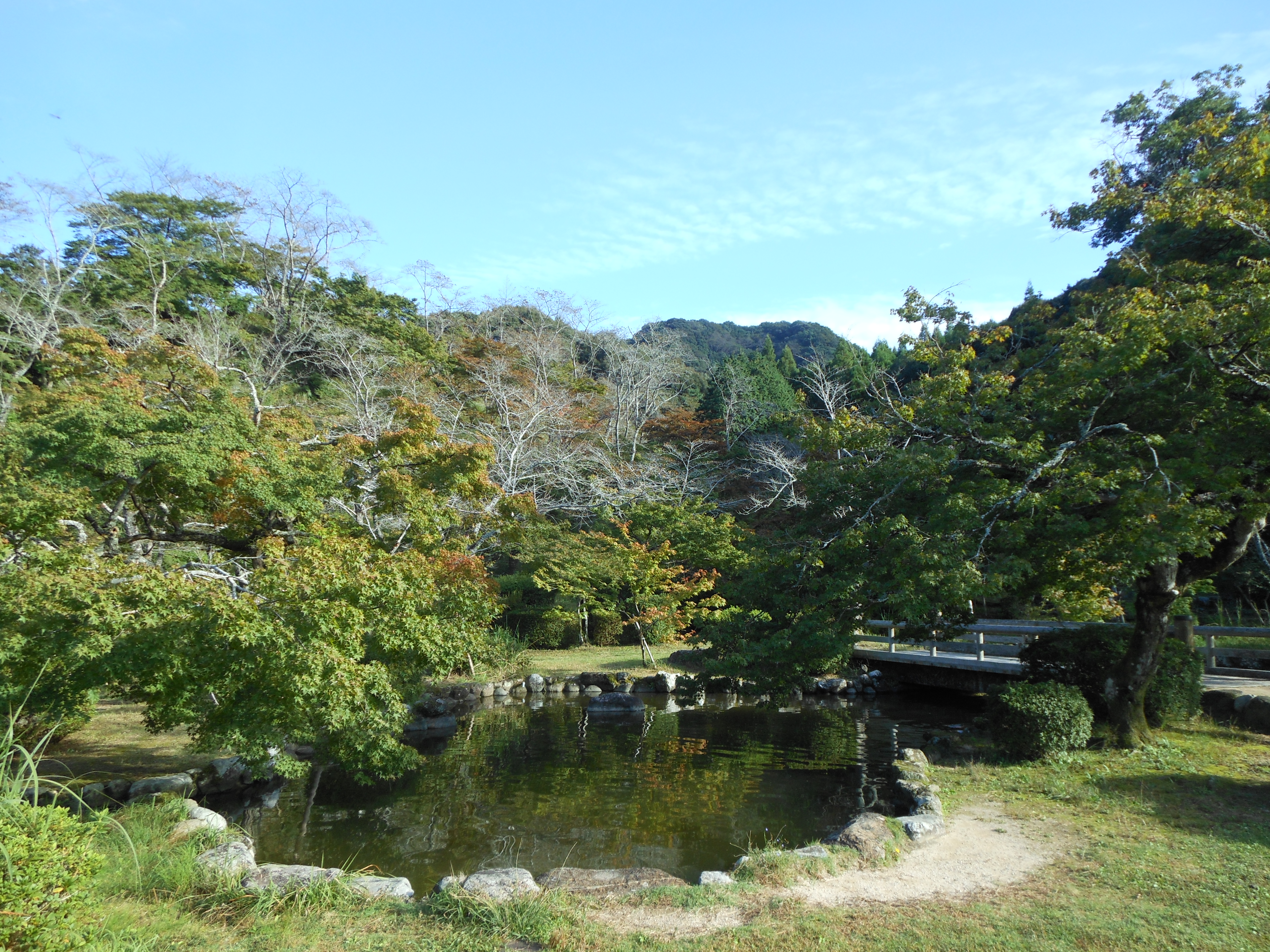 A garden of Seikei Park.